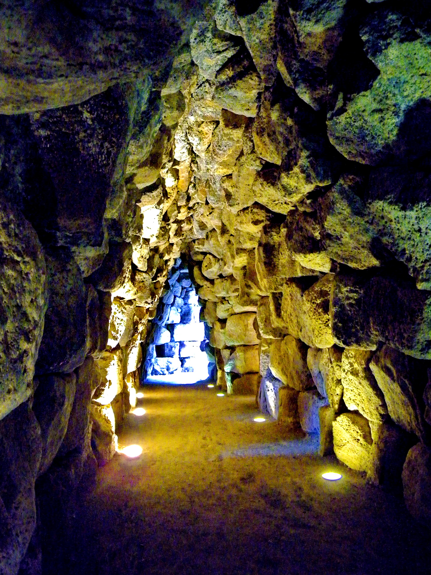 nuraghe in Toralba-Sant'Antine